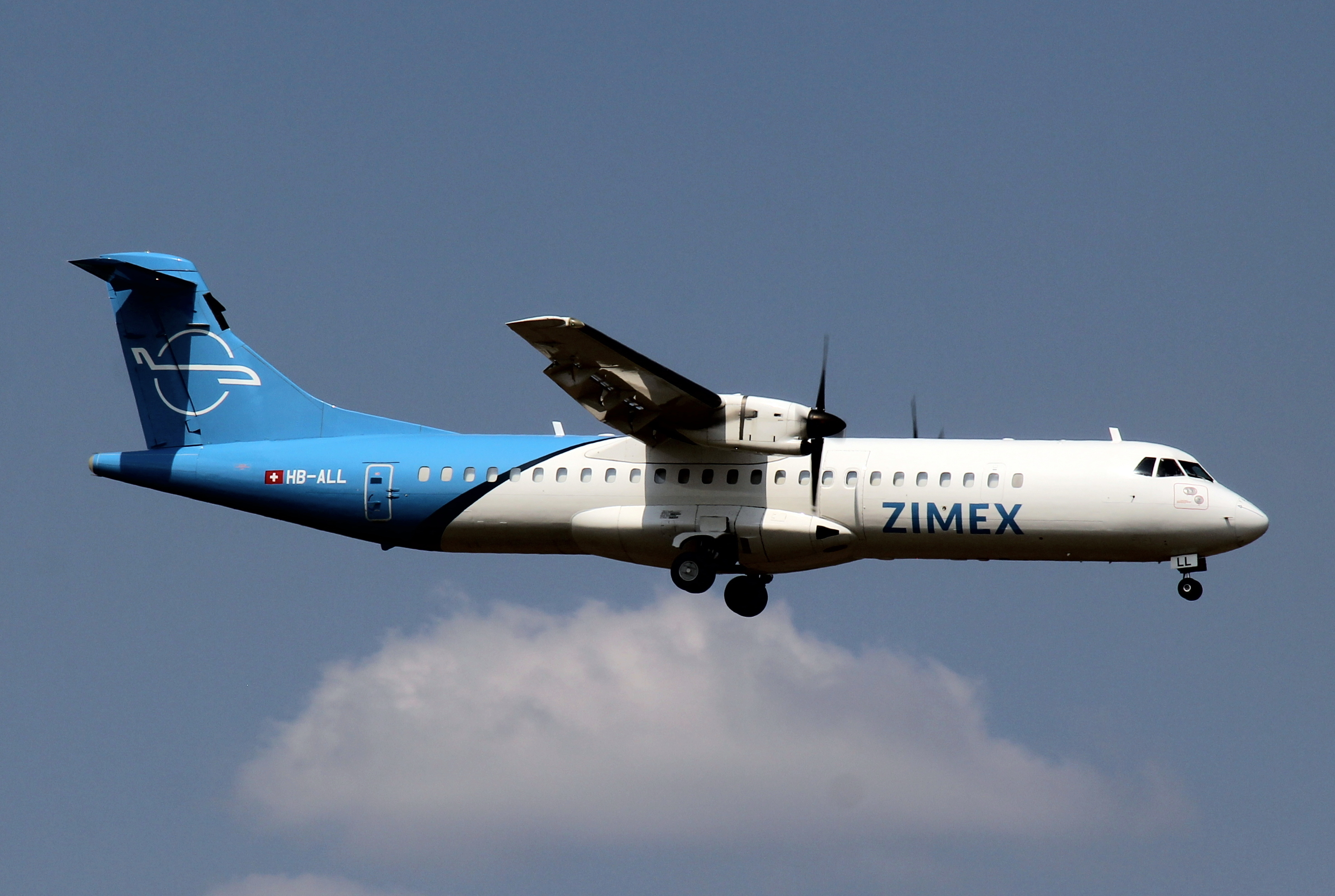 HB-ALL ATR72-202F landing at Zurich Airport